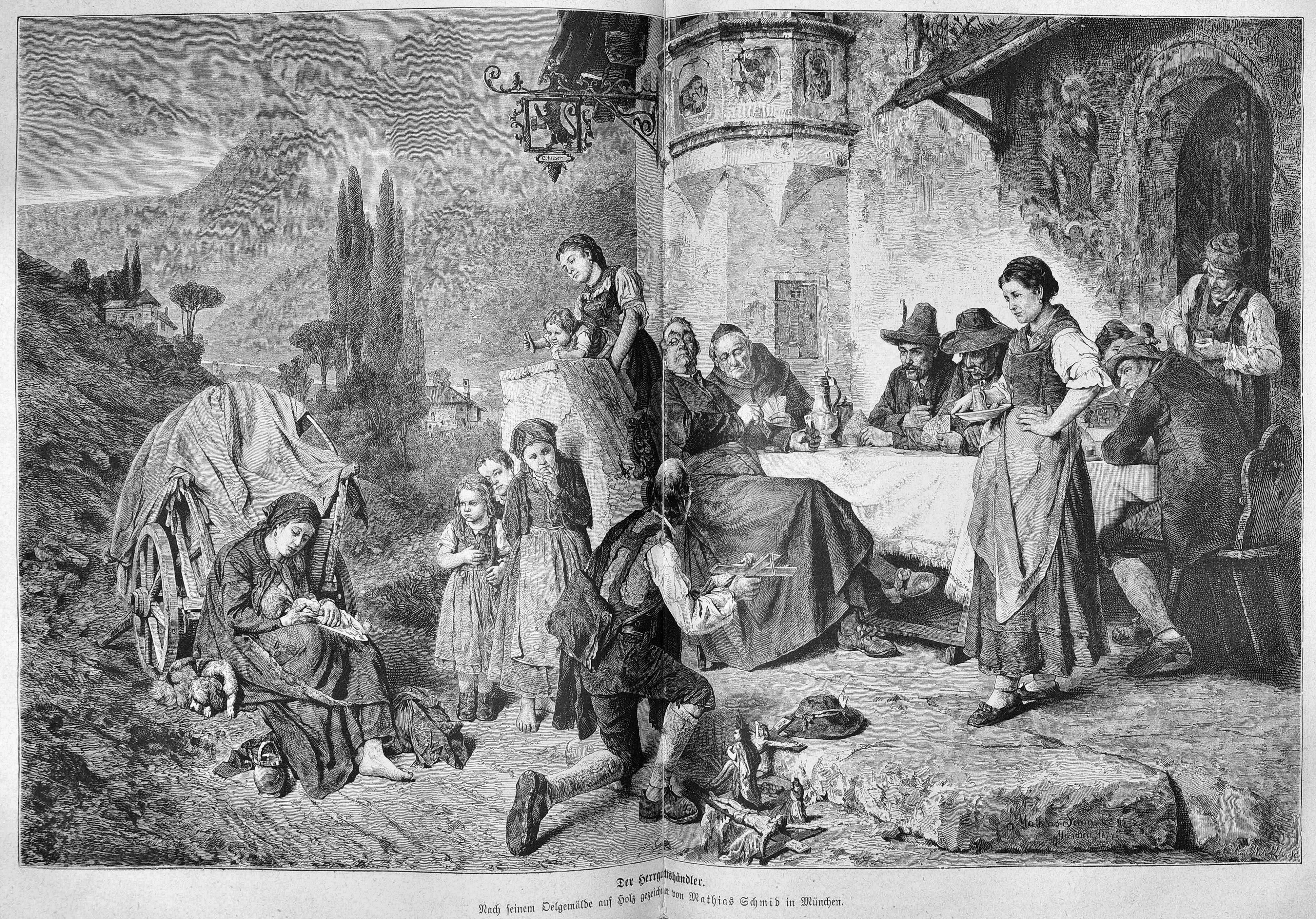 caption: "Der Herrgottshändler. Nach seinem Oelgemälde auf Holz gezeichnet von Mathias Schmid in München."